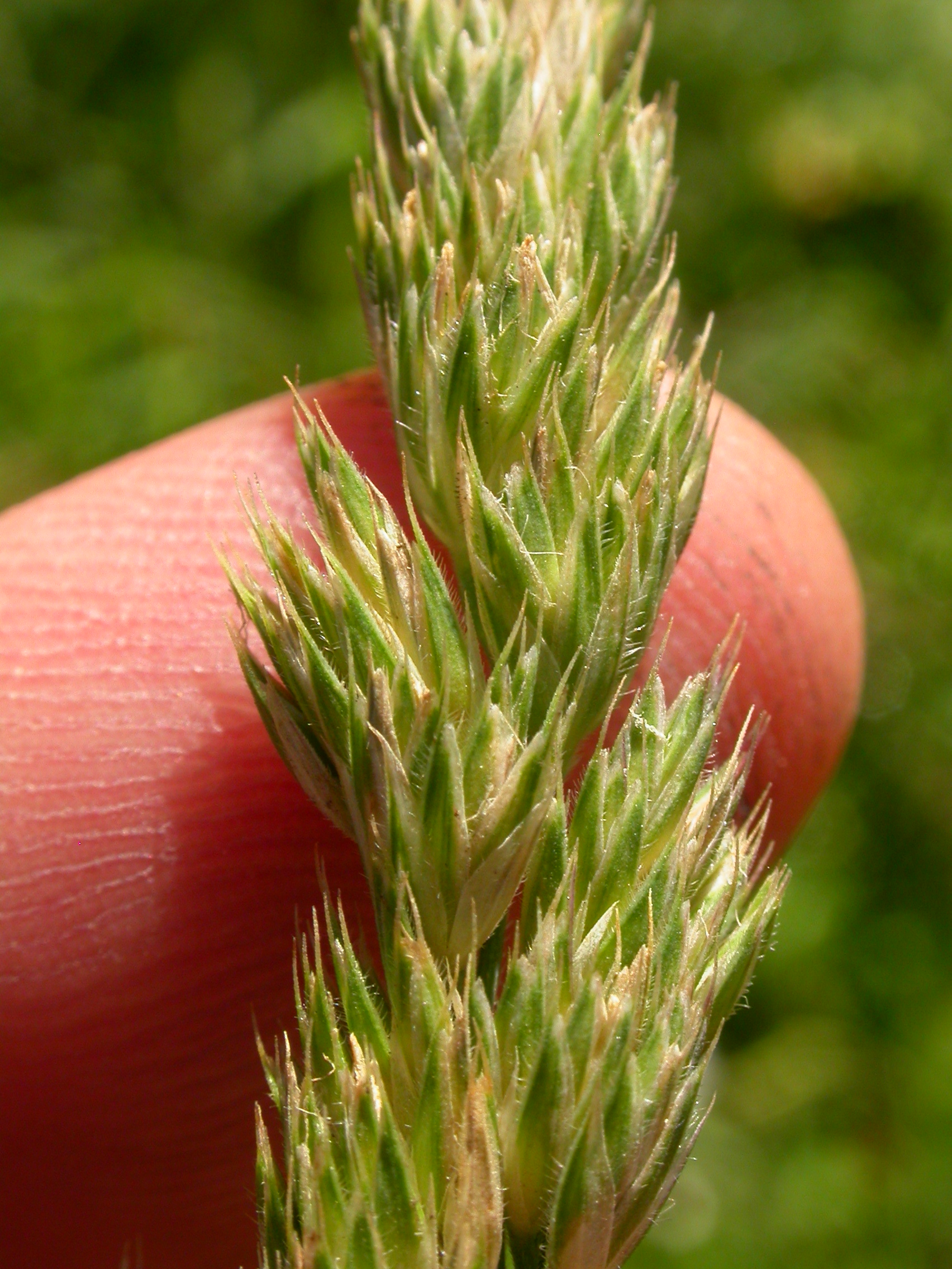 The contracted panicle of orchardgrass is distinctly secund, where the spikelets are swept to one side exposing the rachis only from a back view.